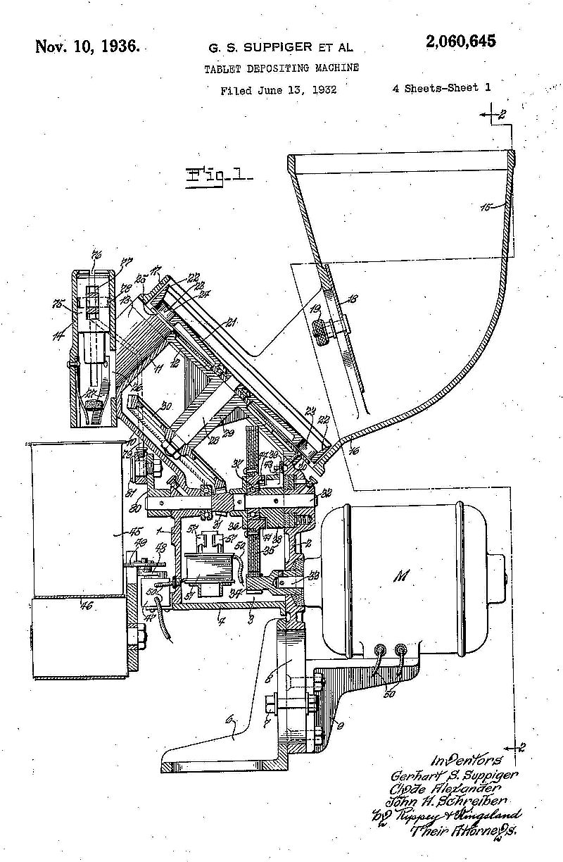 US Patent diagram of patented salt dispenser involved in patent infringement case discussed in Morton Salt Co. v. G.S. Suppiger Co.